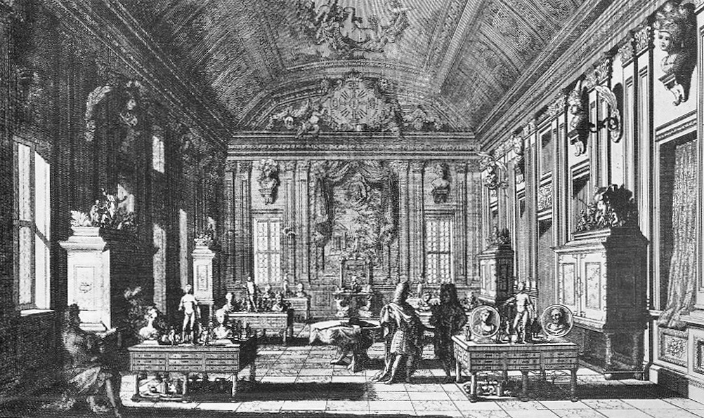 Numismatic and antiquities cabinet in the city palace, Berlin (Lorenz Beger, Thesaurus Brandenburgicus, 1696)